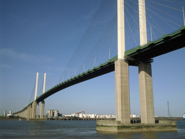 The Queen Elizabeth II bridge is a cable-stayed road bridge in England that crosses the Thames Estuary from the east of Dartford in Kent, to West Thurrock in Essex. It is part of the Dartford Crossing. Original description: Looking from the Dartford side, the bridge carries southbound traffic across the Thames towards the toll booths on the Kent side of the river. Northbound traffic uses the twin Dartford Tunnels, the air shafts of which can just be seen across the river on the left of the photograph. On the right of the photograph can be seen one of the two pylons carrying power lines across the river - at 630 feet these are the tallest pylons in the UK.